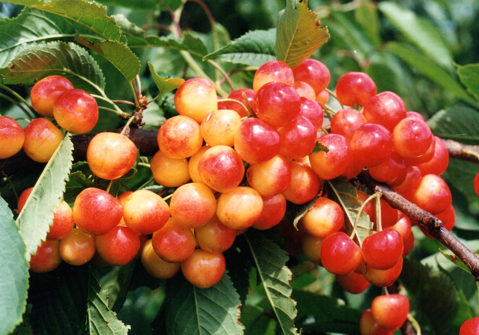 Büttners Rote Knorpelkirsche